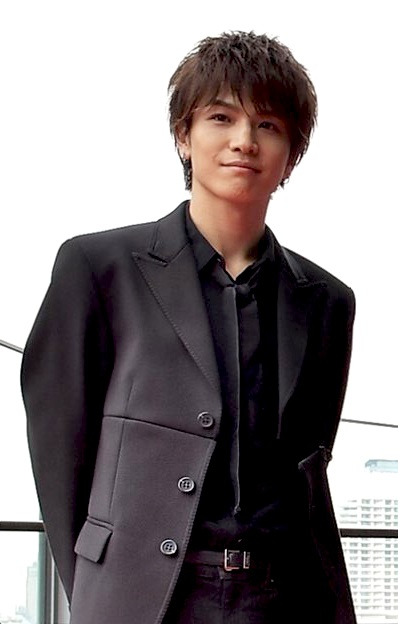 J Soul Brothers' Takanori Iwata @ SSFF Asia 2018 (cropped)